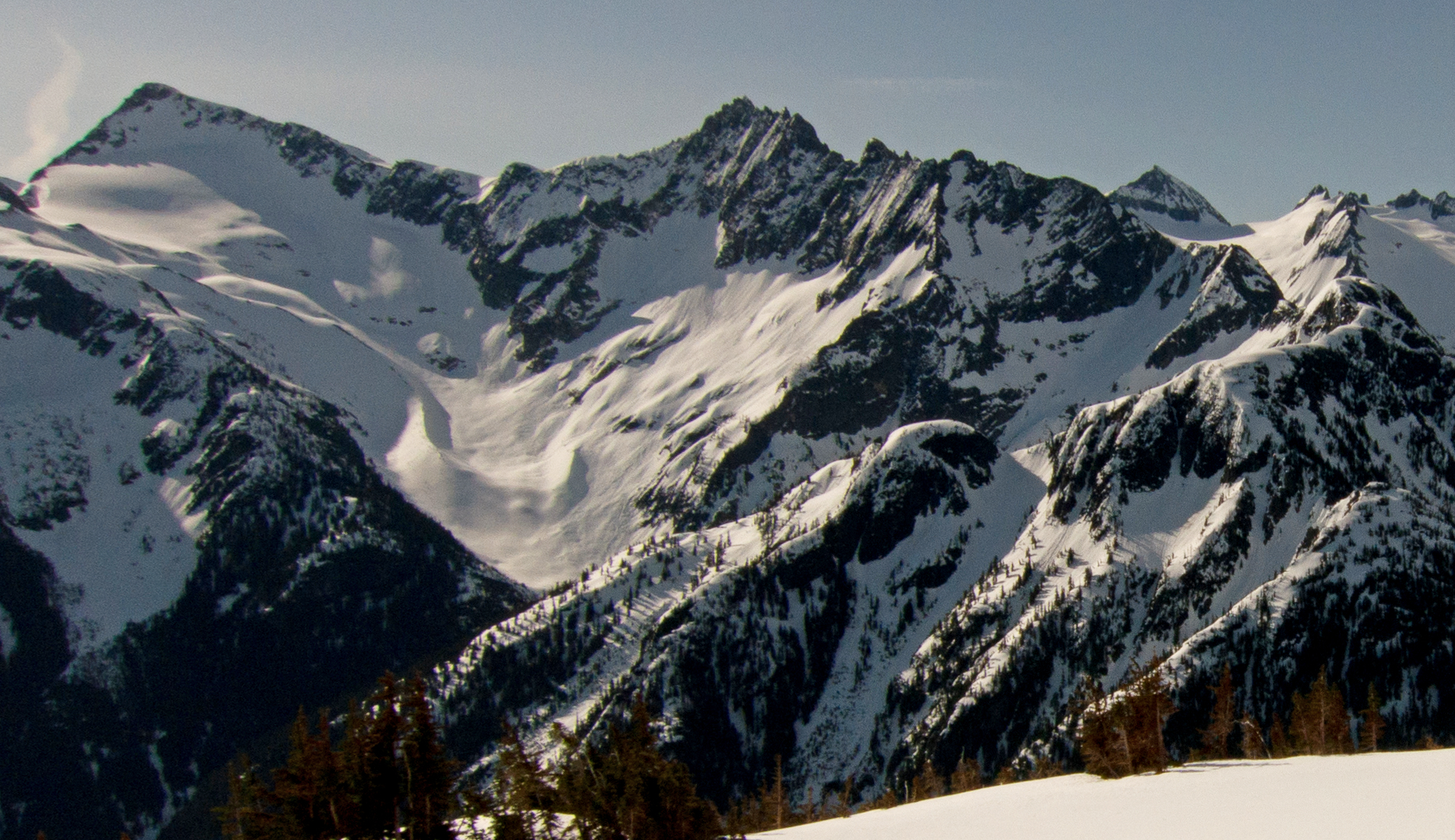 Primus Peak (left) and Austera Peak seen from northwest North Cascades National Park.